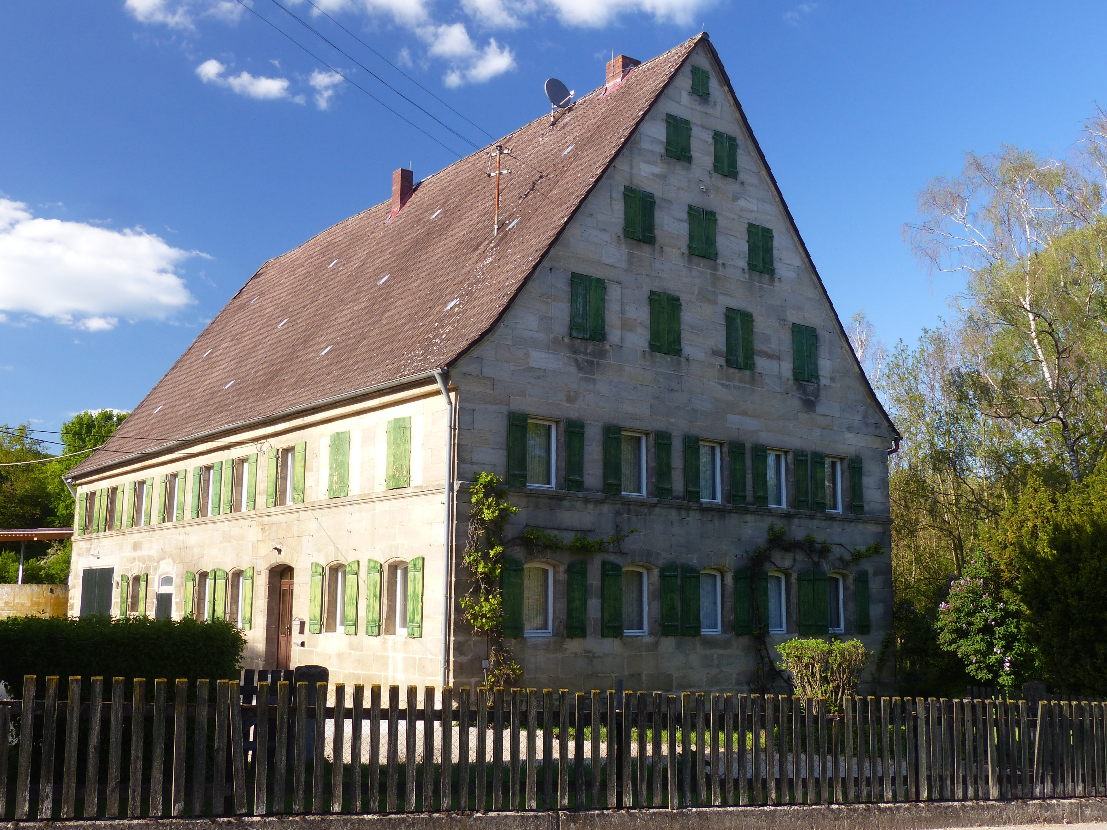 A farmhouse in the village Etlaswind, a district of the municipality of Igensdorf.